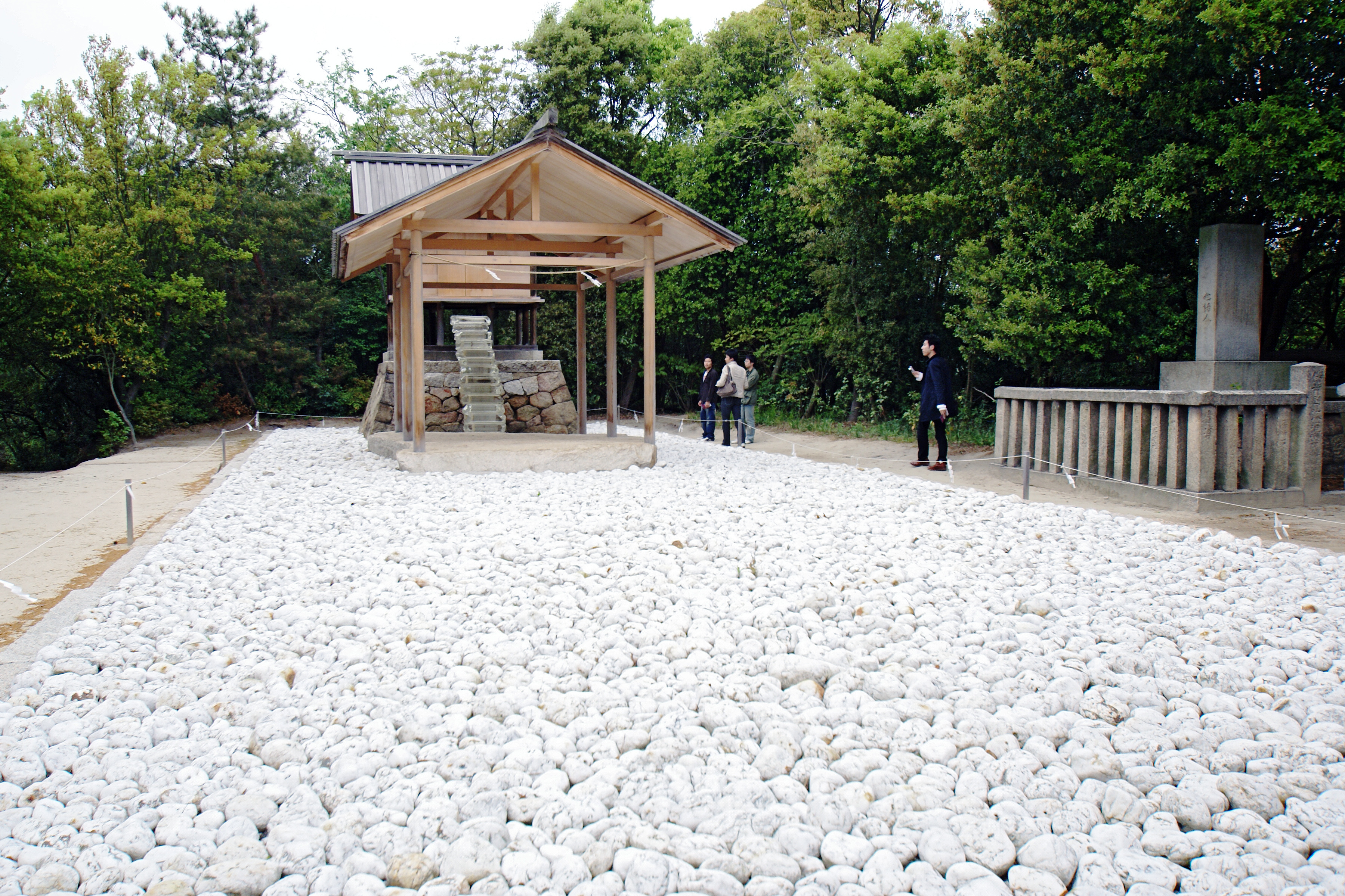 Art House Project in Naoshima, Kagawa prefecture, Japan